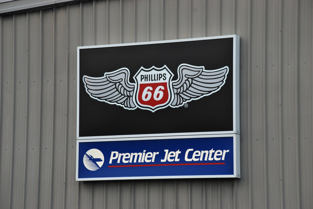 Winged logo for Phillips 66 Aviation fuel, at Premier Jet Center, at the Hillsboro Airport in Hillsboro, Oregon.